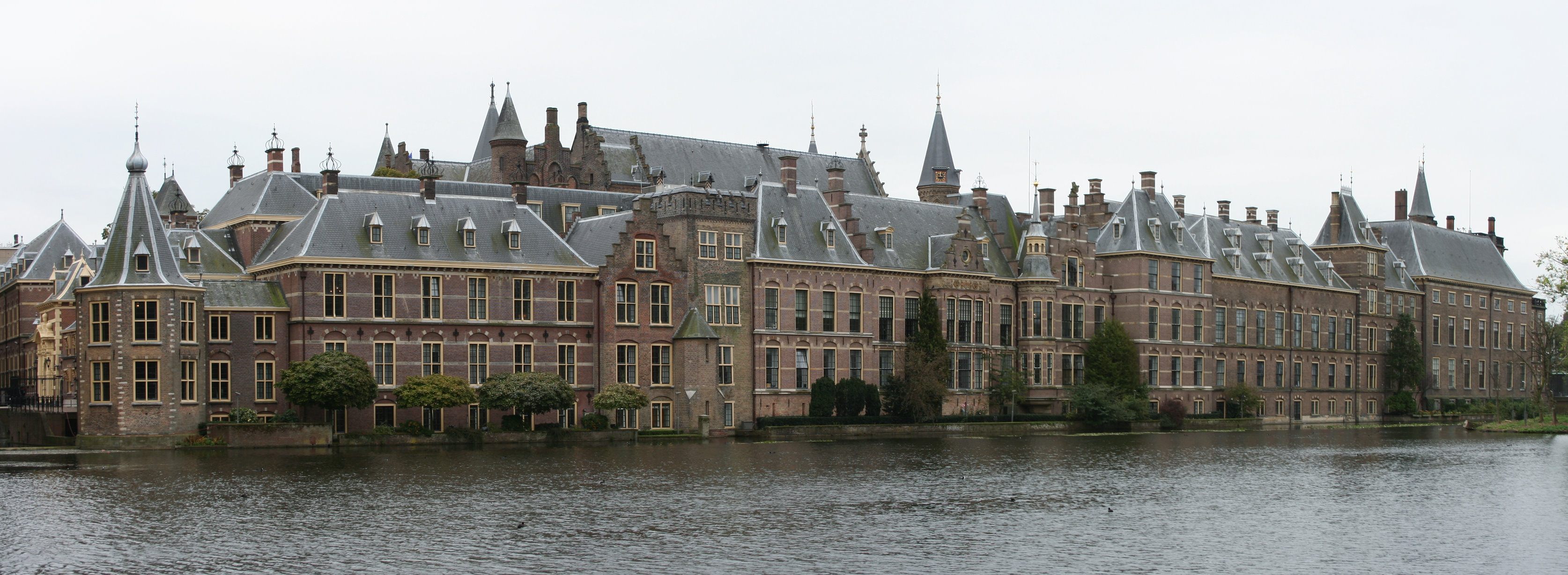 Panorama of the Binnenhof, including the "Eerste Kamer der Staten Generaal: eertijds verblijf van de Staten van Holland", combined from 15 photos taken with a Canon 350D.